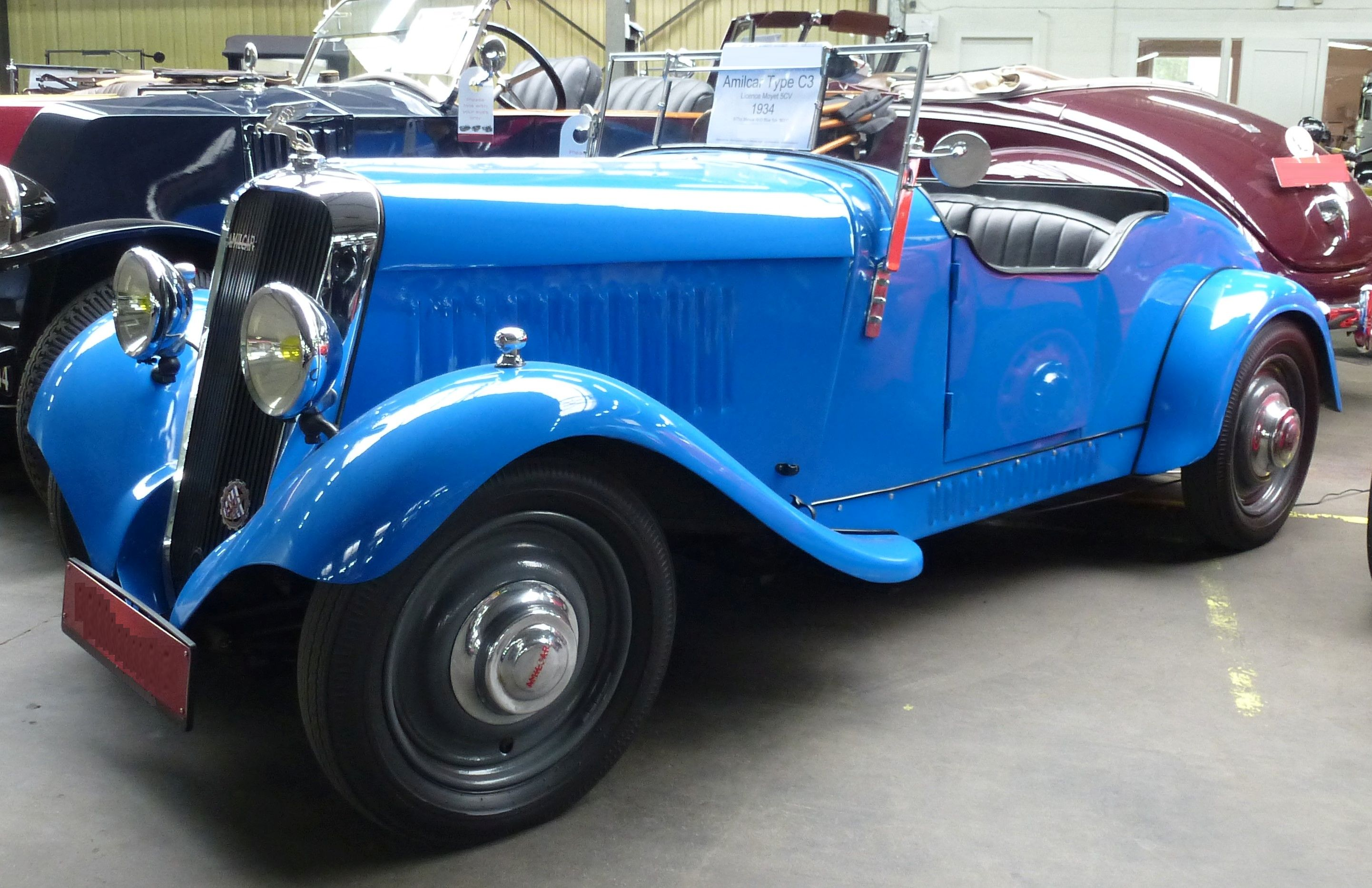 Amilcar Type C 3 Roadster 1934